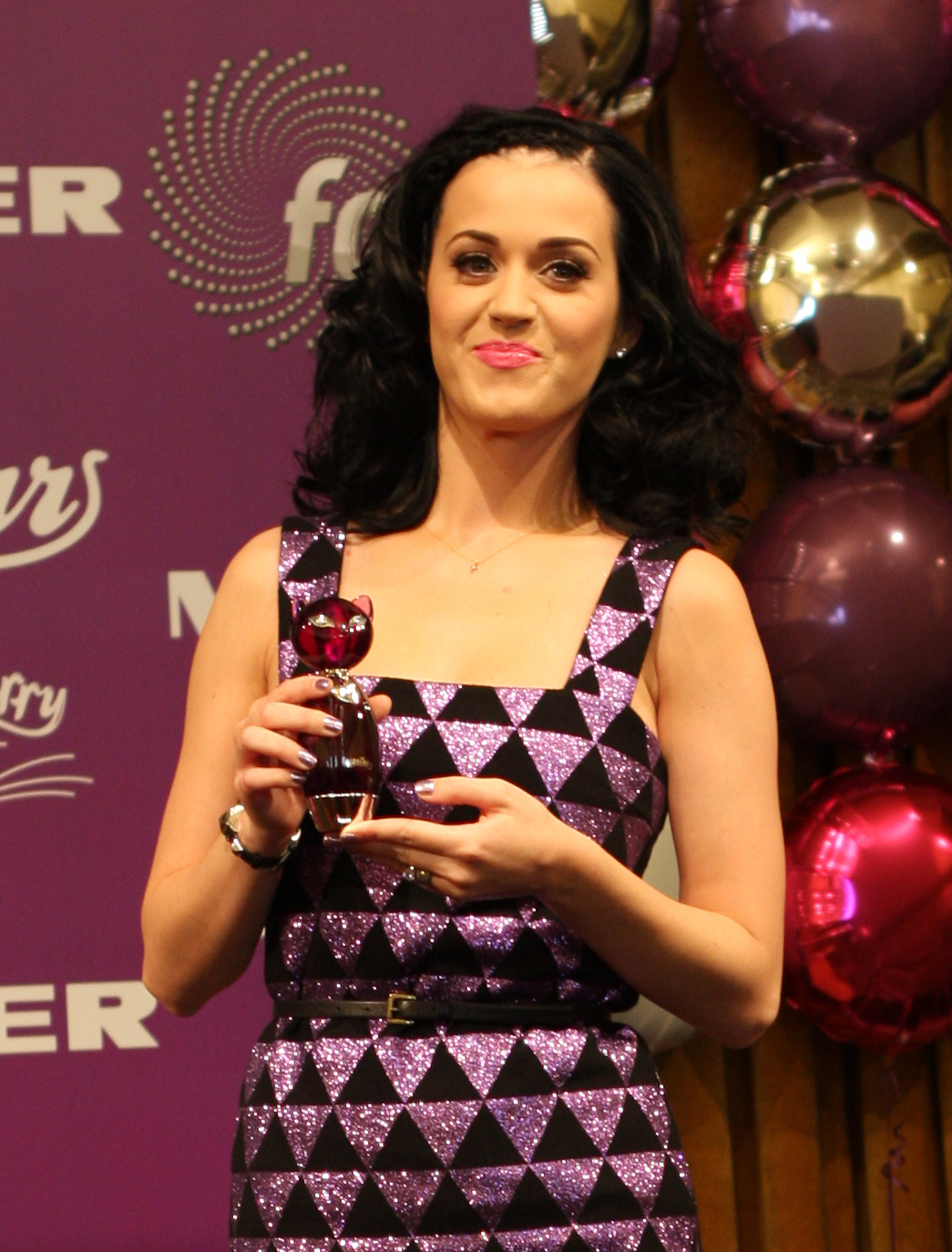 Katy Perry holding a bottle of Purr